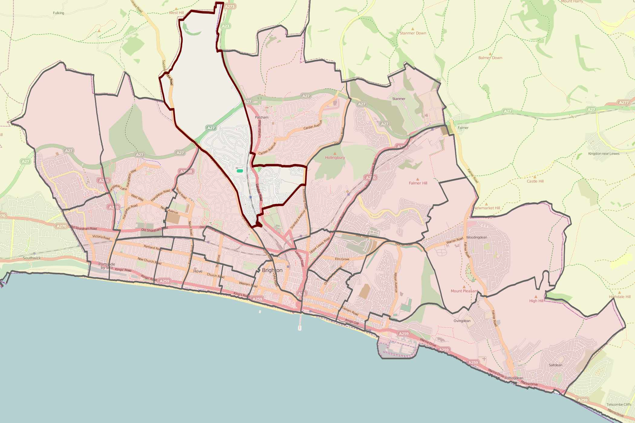 Map of Brighton and Hove wards with one ward highlighted